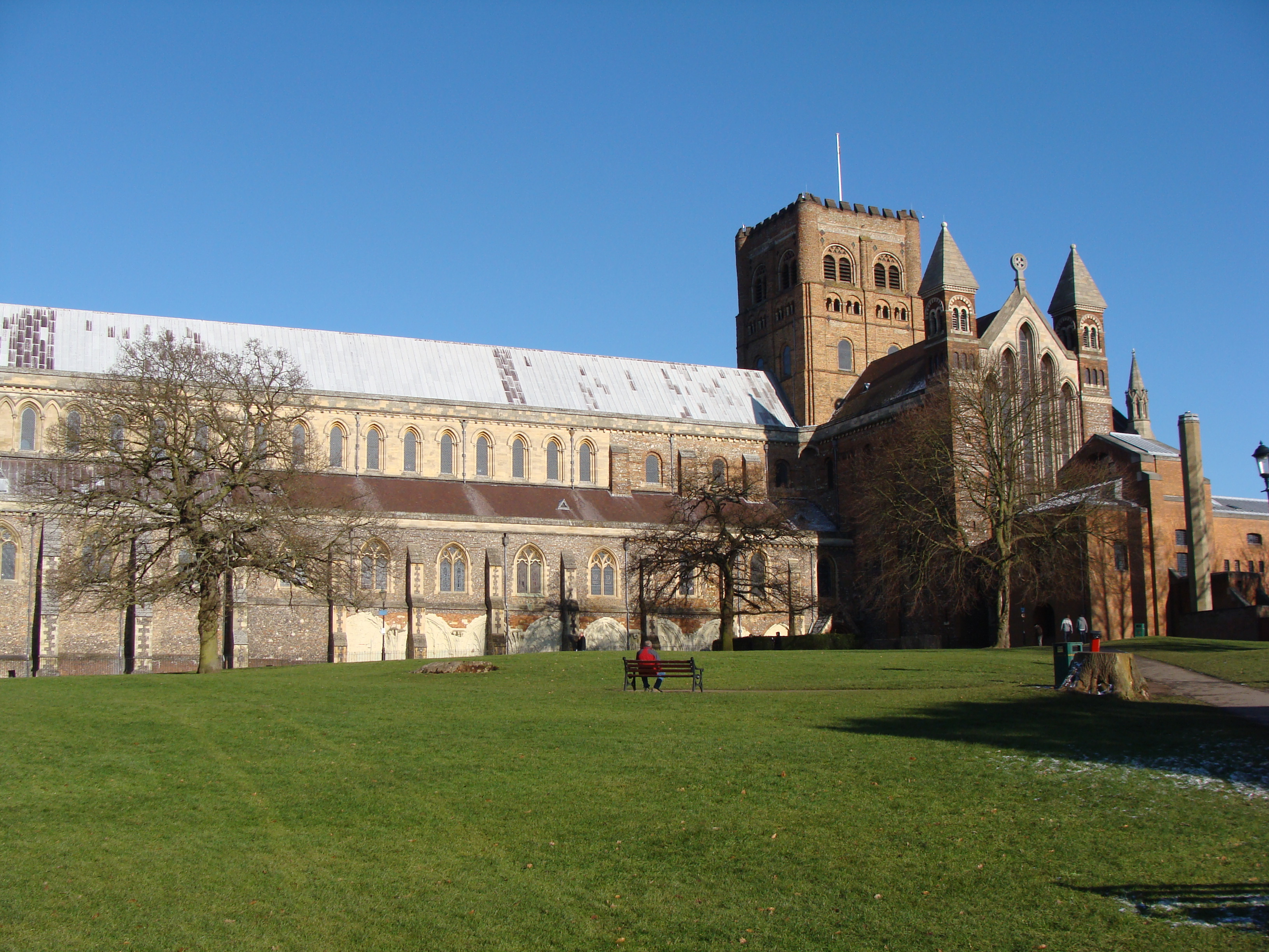 St Albans cathedral, Hertfordshire, England. Katedra w St Albans, Hertfordshire, Anglia.